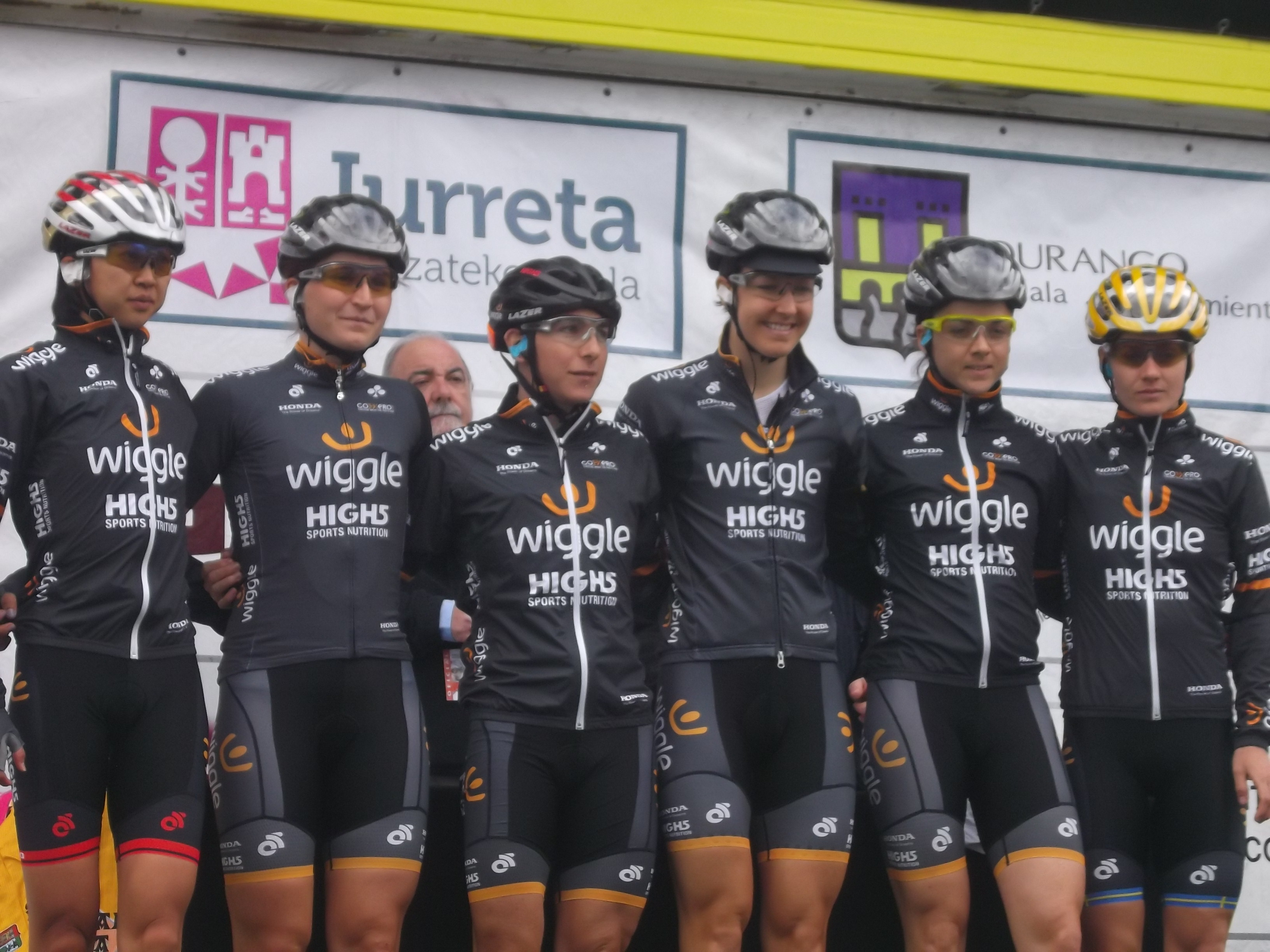 Wiggle at Euskal Emakumeen Bira 2016